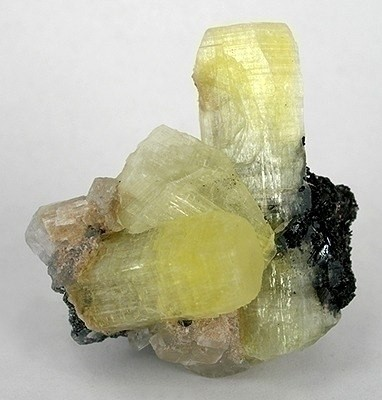 Ettringite, Gaudefroyite Locality: N'Chwaning II Mine, N'Chwaning Mines, Kuruman, Kalahari manganese fields, Northern Cape Province, South Africa (Locality at ) Size: 5 x 5 x 2.25 cm. A glowing yellow cluster of large, translucent, thick ettringite crystals on a bit of calcite matrix, and with contrasting black gaudefroyite upon the right side. The large crystal is fully terminated, though admittedly has a contact on the left side where it grew against another crystal no longer present. Still, the upright, freestanding crystal is extremely dramatic, is complete; and such crystals are rare. Usually they are flatlying, whereas this is freestanding and vertical. The smaller crystal at the base is fully terminated and complete. Ex. Charlie Key.